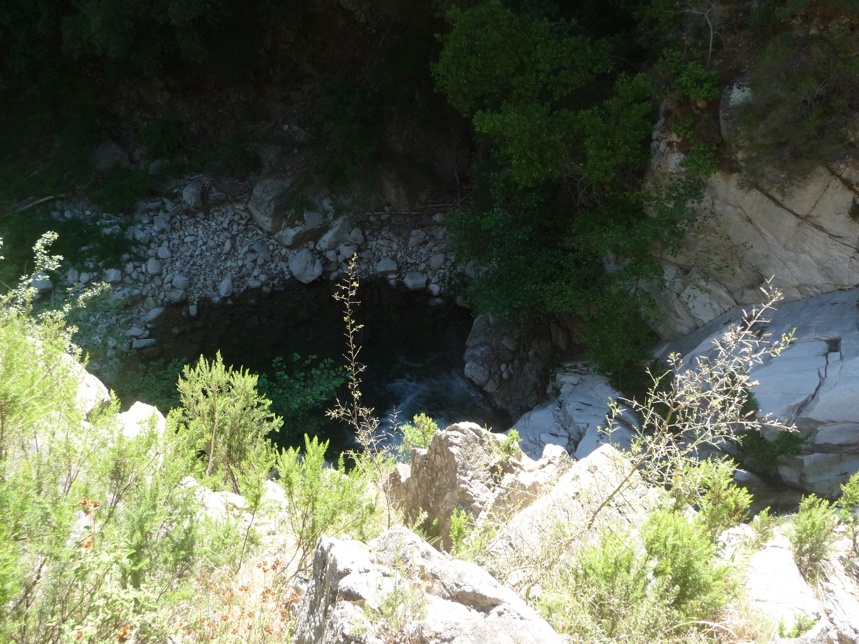 Little lake under the fall of Pietracupa